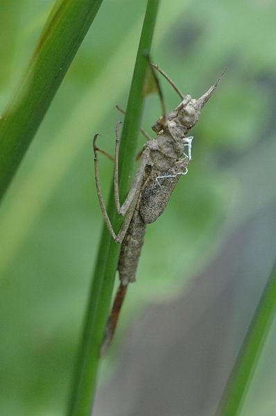 Picture taken in Commanster, Belgian High Ardennes . Species: Calopteryx virgo exuvium